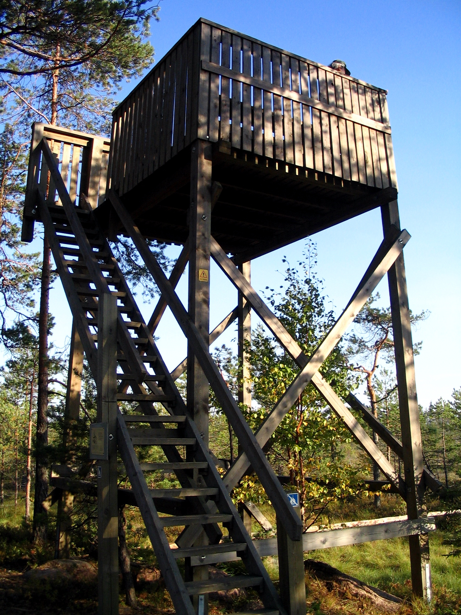 The bird watching tower of Valkmusa National Park.